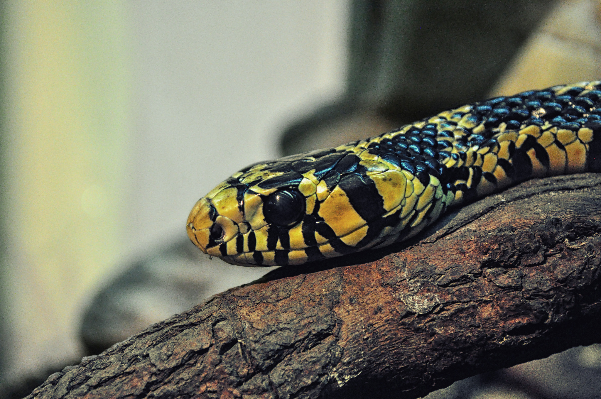 Spilotes pullatus, commonly known as the chicken snake, yellow rat snake, or serpiente tigre